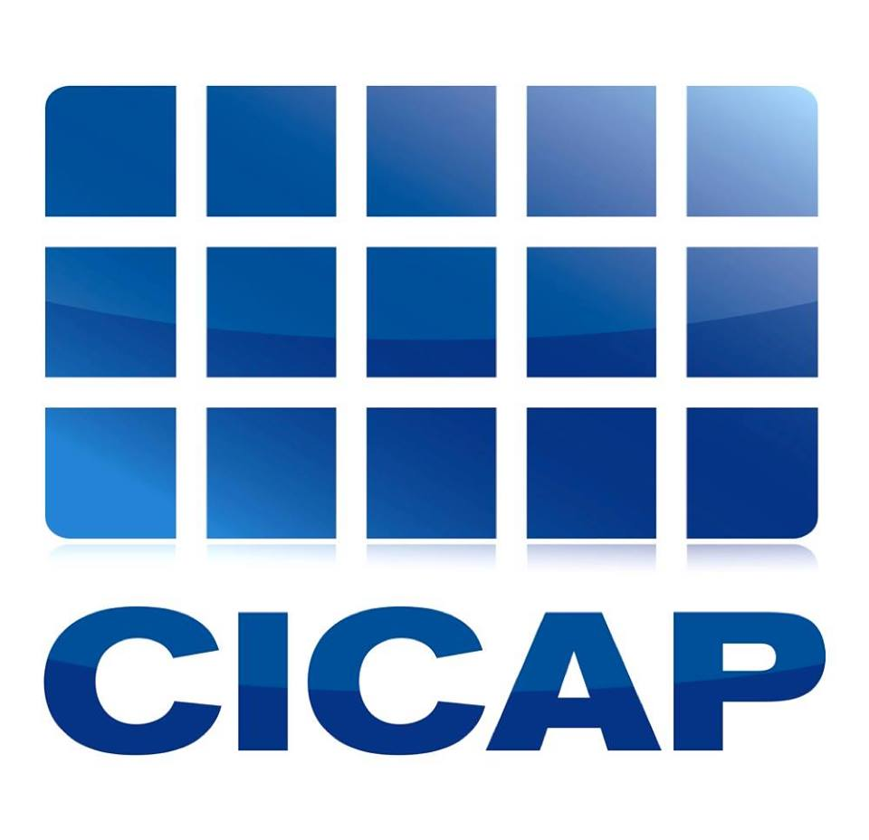 Logo of CICAP since 2013, based on the Hermann grid illusion.